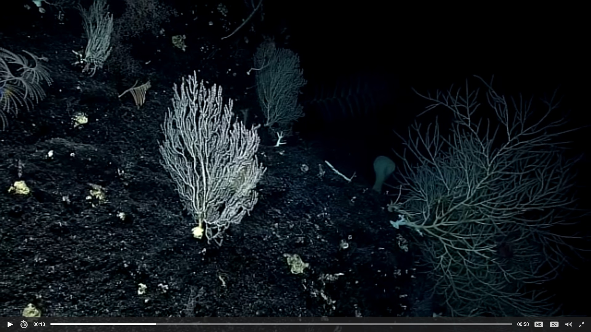 03: Carondelet Reef, March 11, 2017, Video "Coral Hotspot" at 13 secdepth about 1840 meters